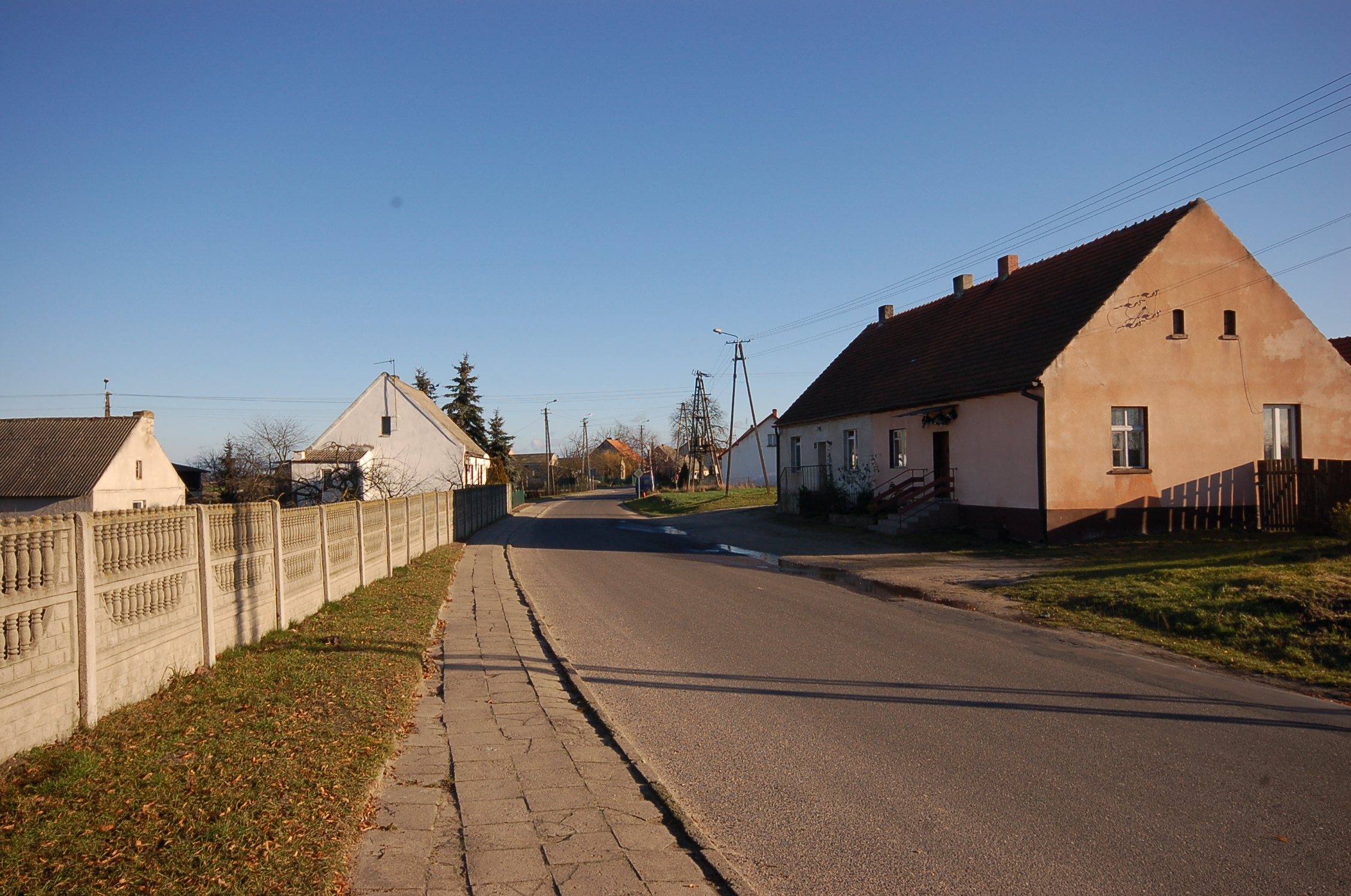 Niestronno - village view. Mogilno, Poland